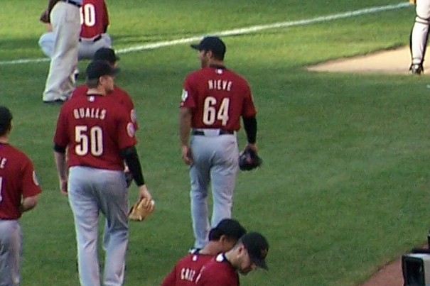 Description Fernando Nieve with the Houston Astros. Date18 July 2006SourceI created this work entirely by myself.AuthorBrandonrush (talk) 19:57, 29 March 2009 . . Brandonrush . . 605×403 (251 KB) Fernando Nieve with the Houston Astros.